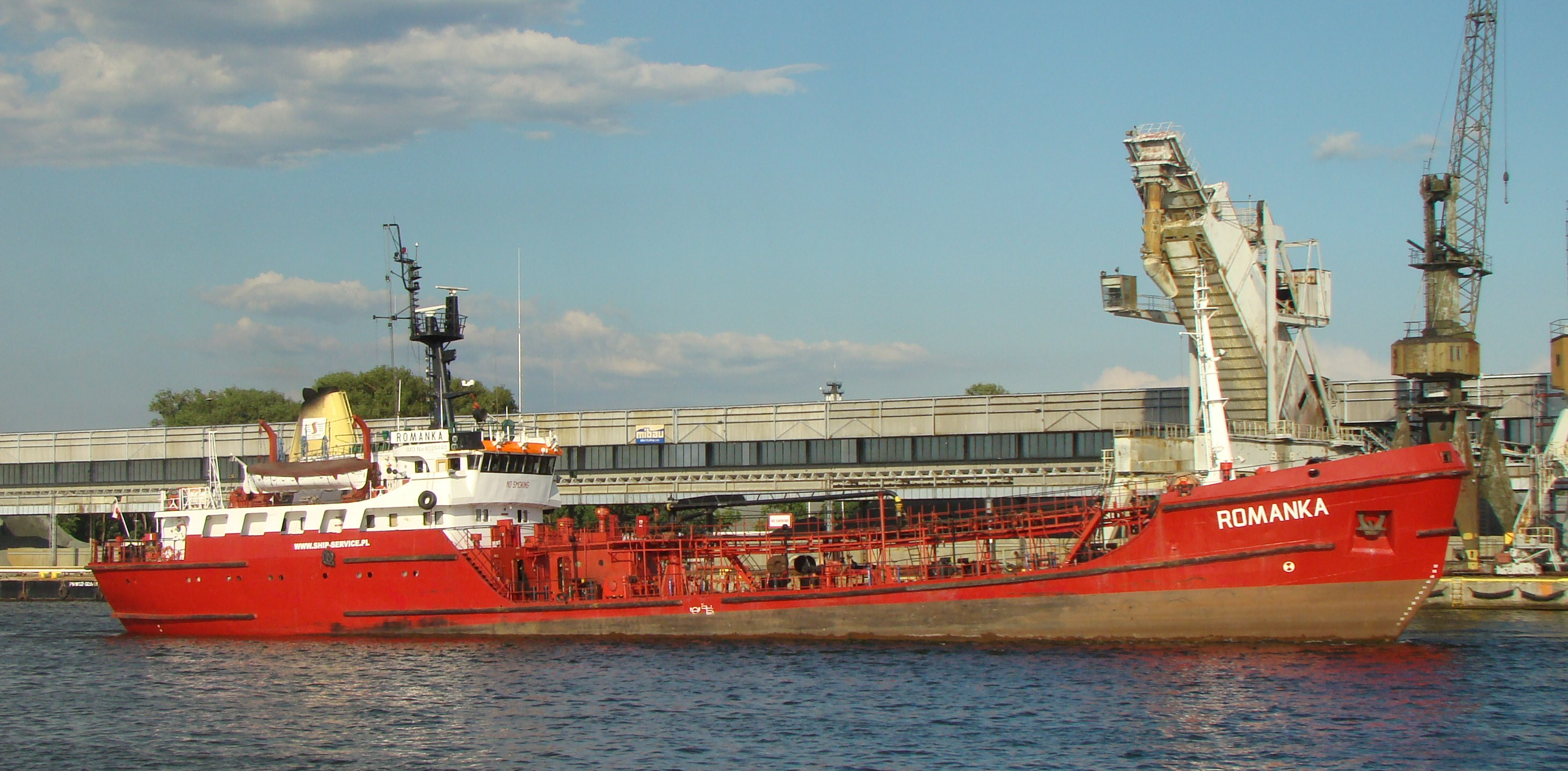 Polish oiler Romanka (built 1981, Wisła shipyard, 997 GT, length 60.18 m).